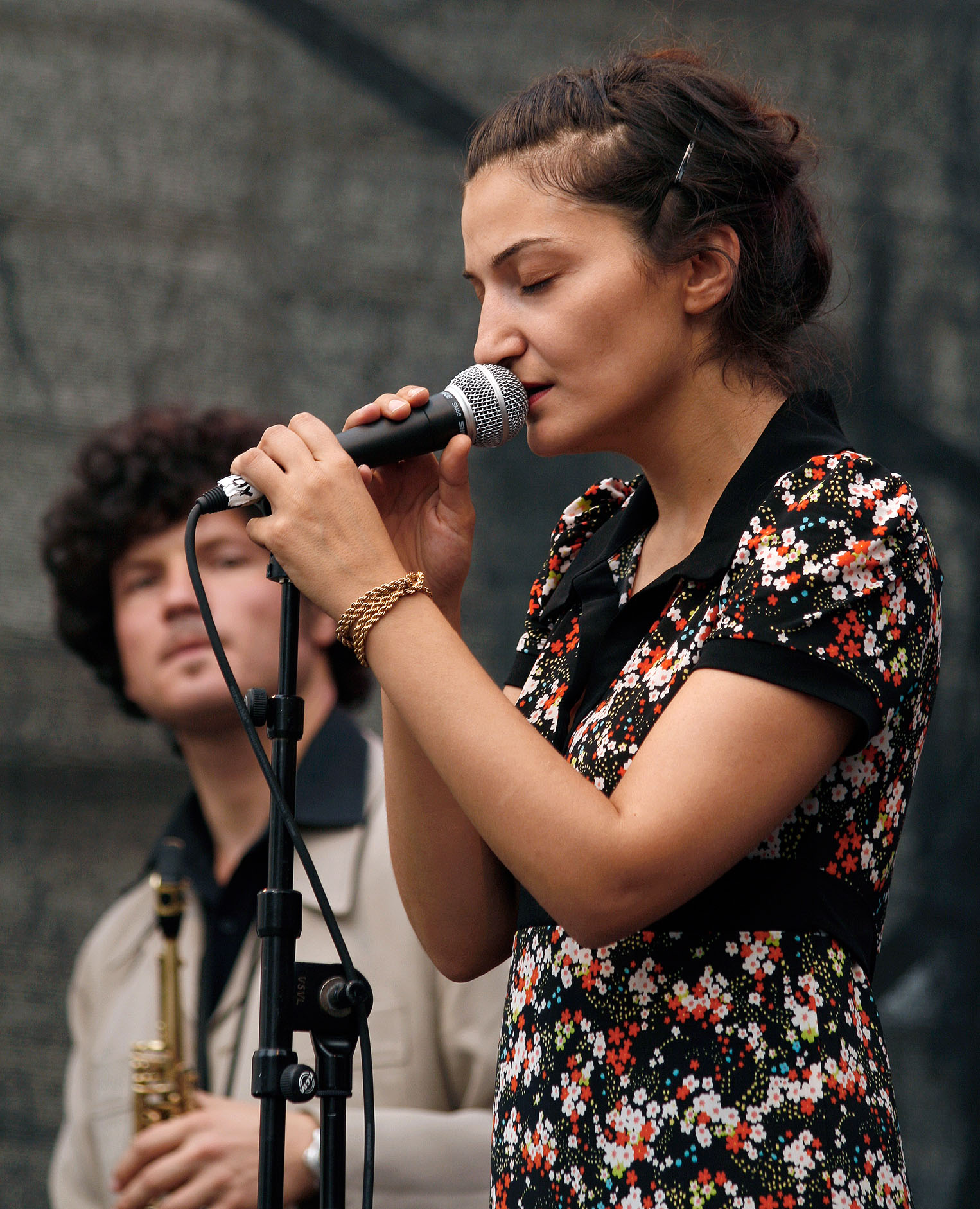 Fatima Spar and The Freedom Fries, concert in Vienna